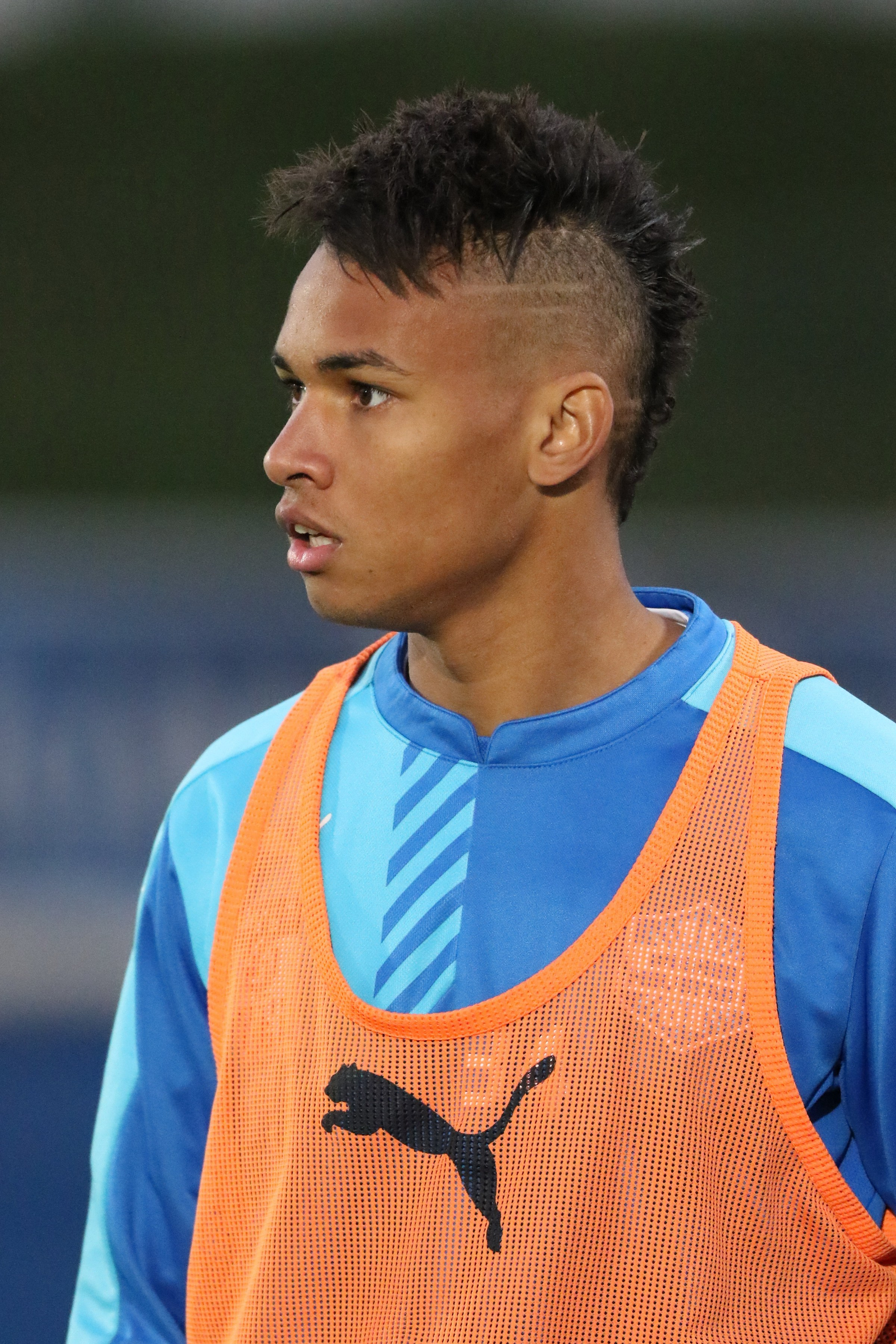 Match of the Erste Liga – SC Wiener Neustadt (blue/white shirts) vs. FC Wacker Innsbruck (green/black shirts) 0–2 (0–1) on 2016-04-11 in the Stadion in Wiener Neustadt – The photo shows Marvin Egho.